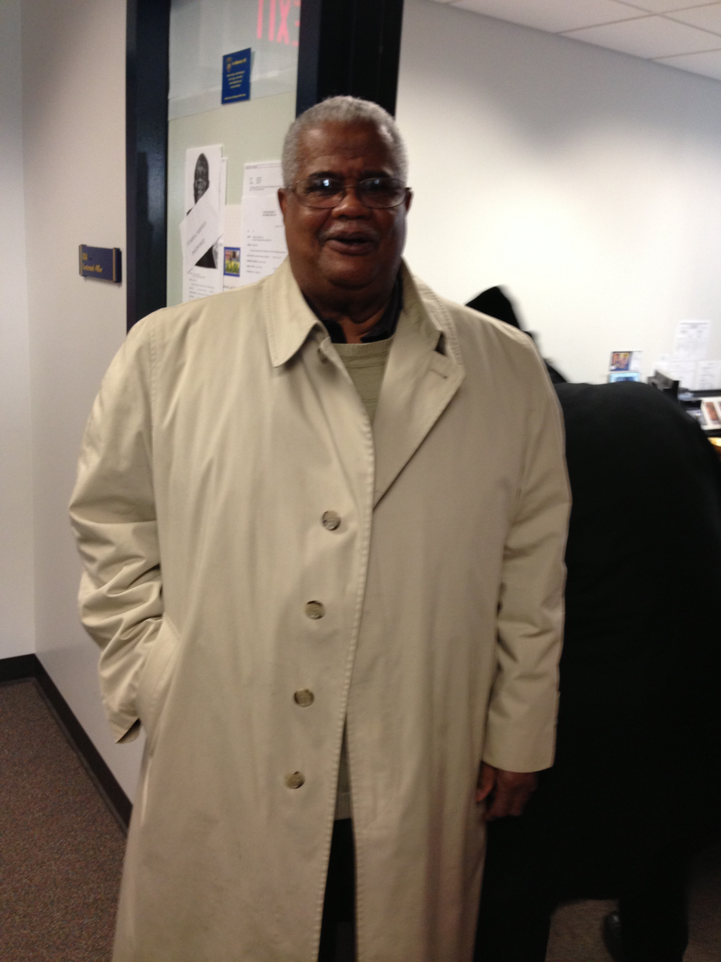 This is a photo of Oscar Requer former Homicide detective and basis for 'The Wire' character Bunk.